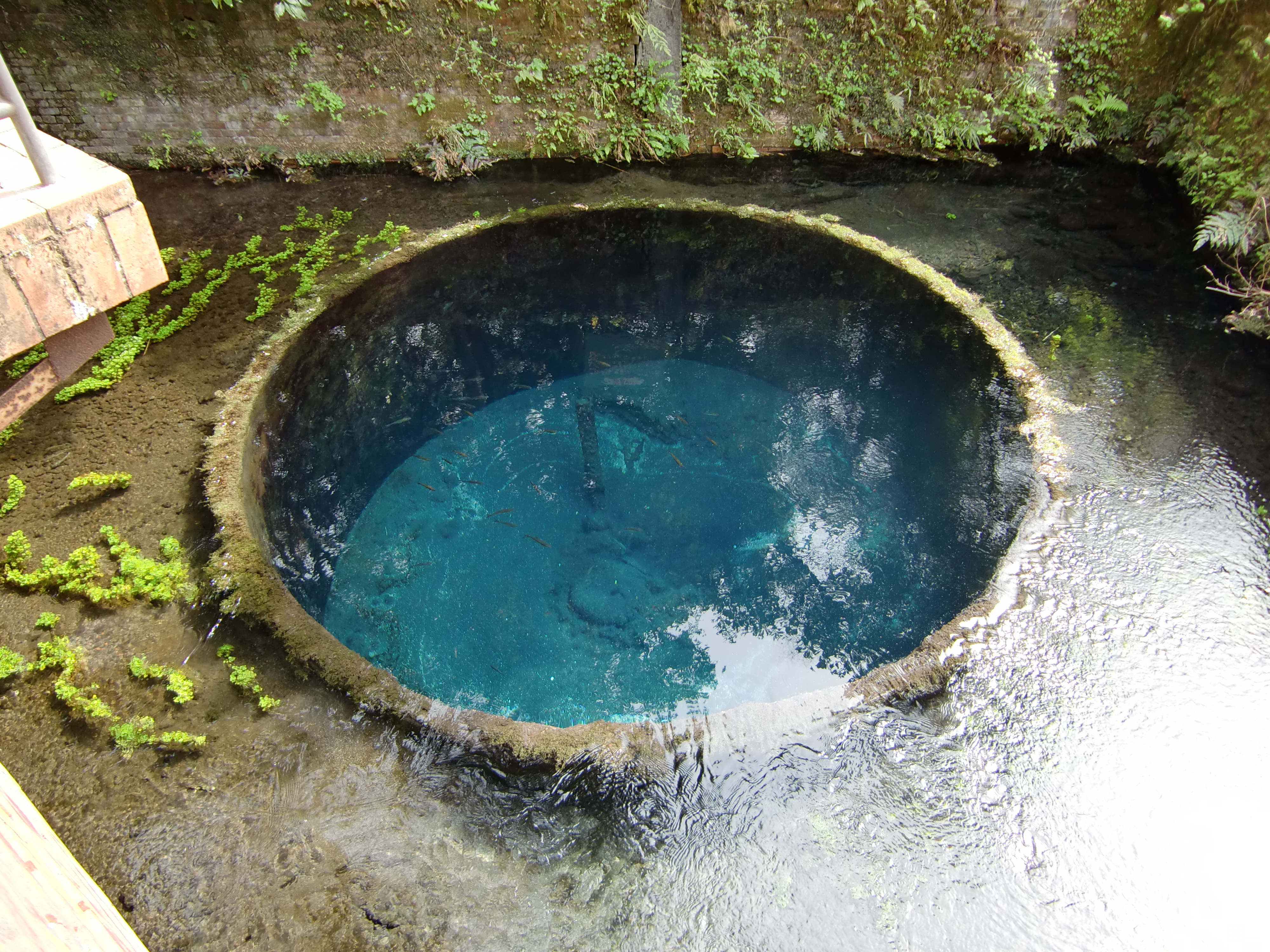 One of the water springs in Kakita River Park, Shizuoka, Japan